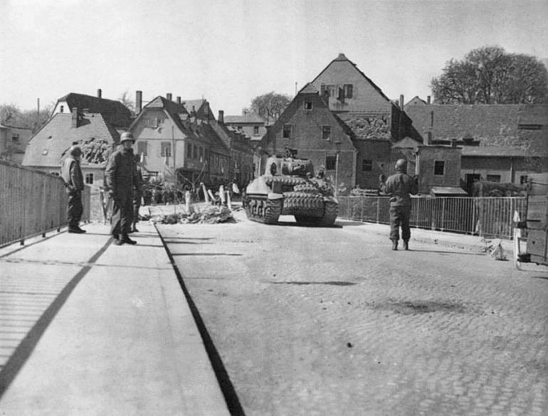 American troops crossing Colditz bridge 12th April 1945, taken by a GI.